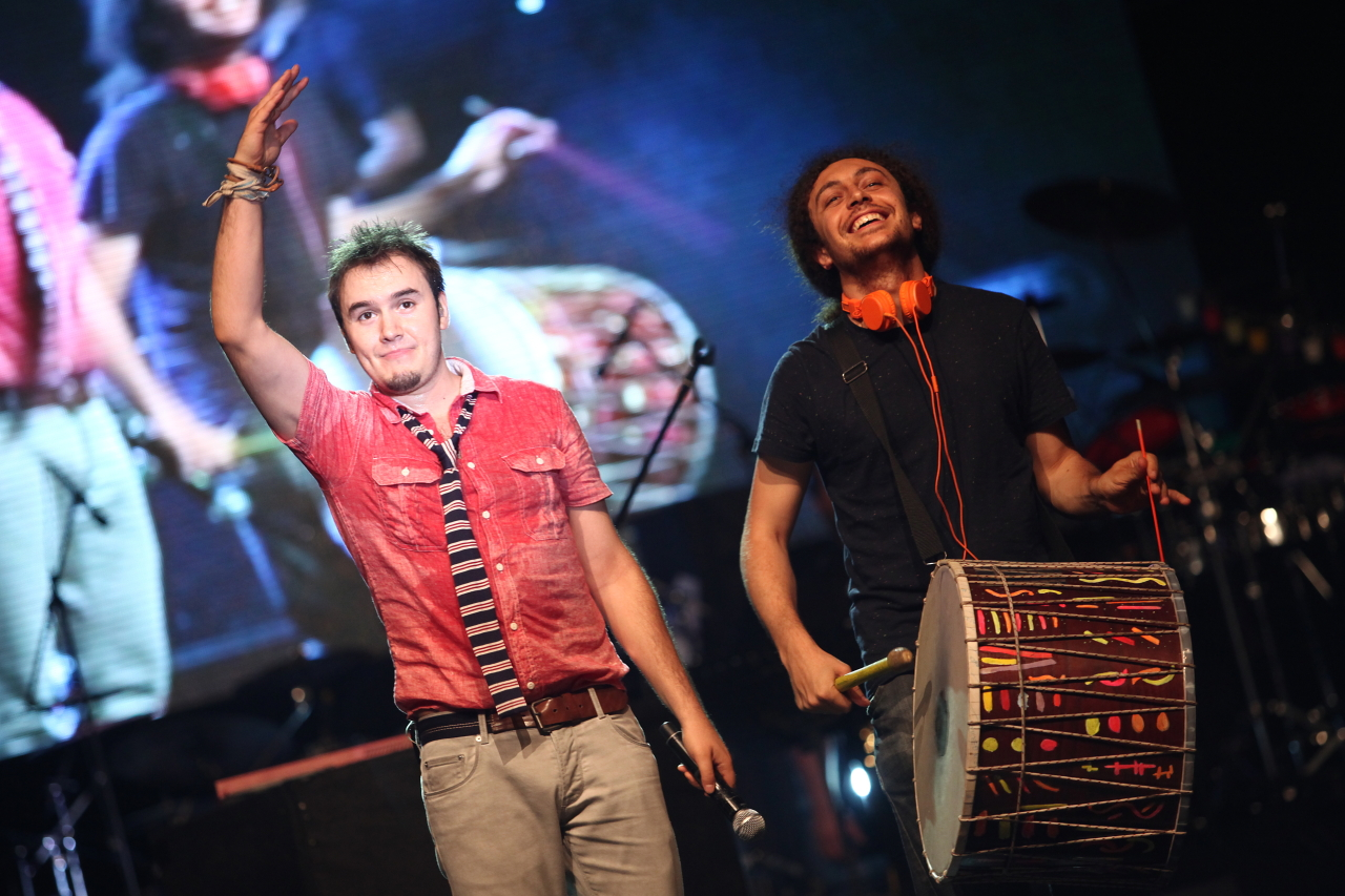 Mustafa Ceceli at Kucukcekmece, Istanbul.